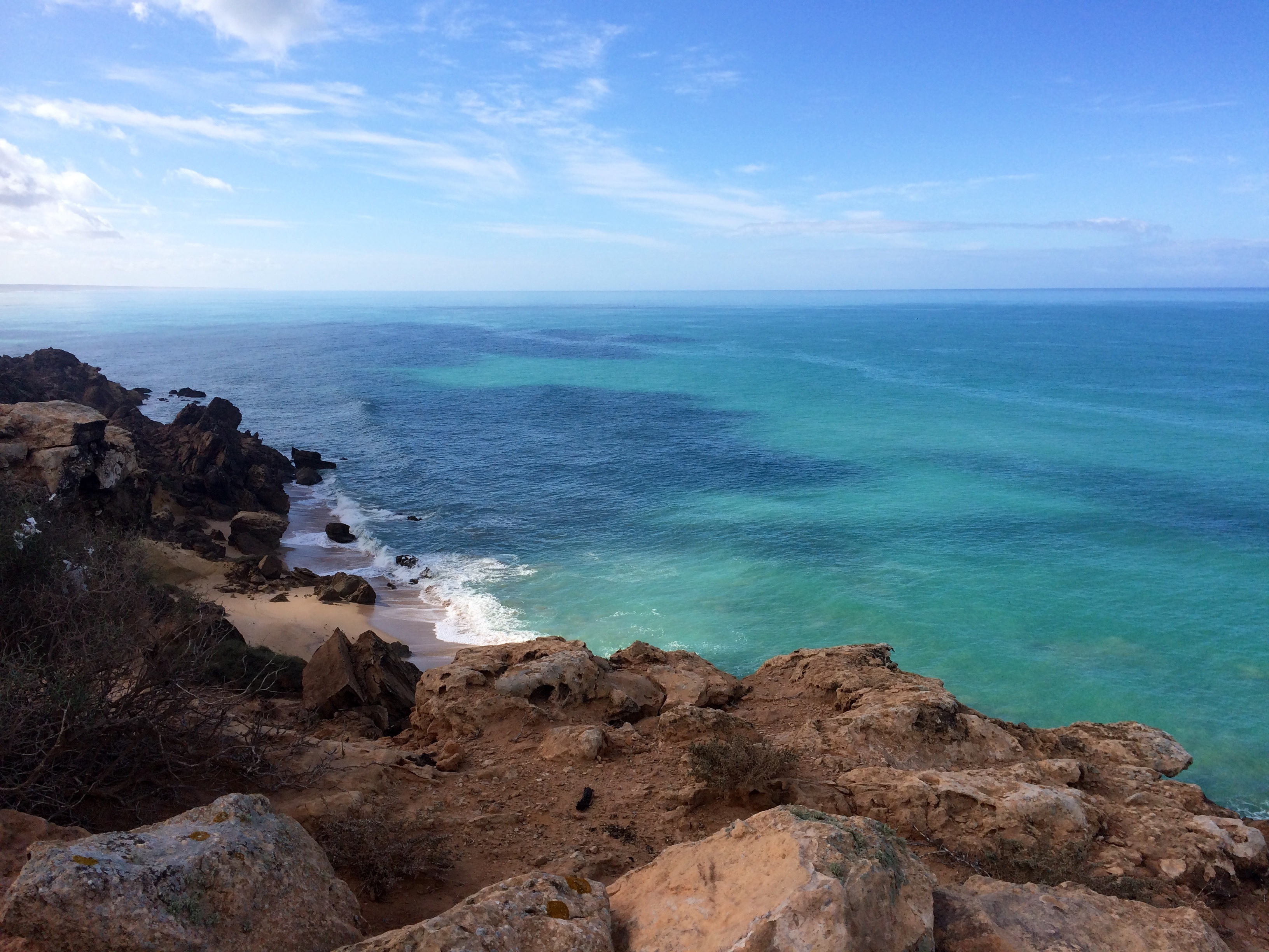 The Rocks near Boujdour, south Morocco, Western Sahara